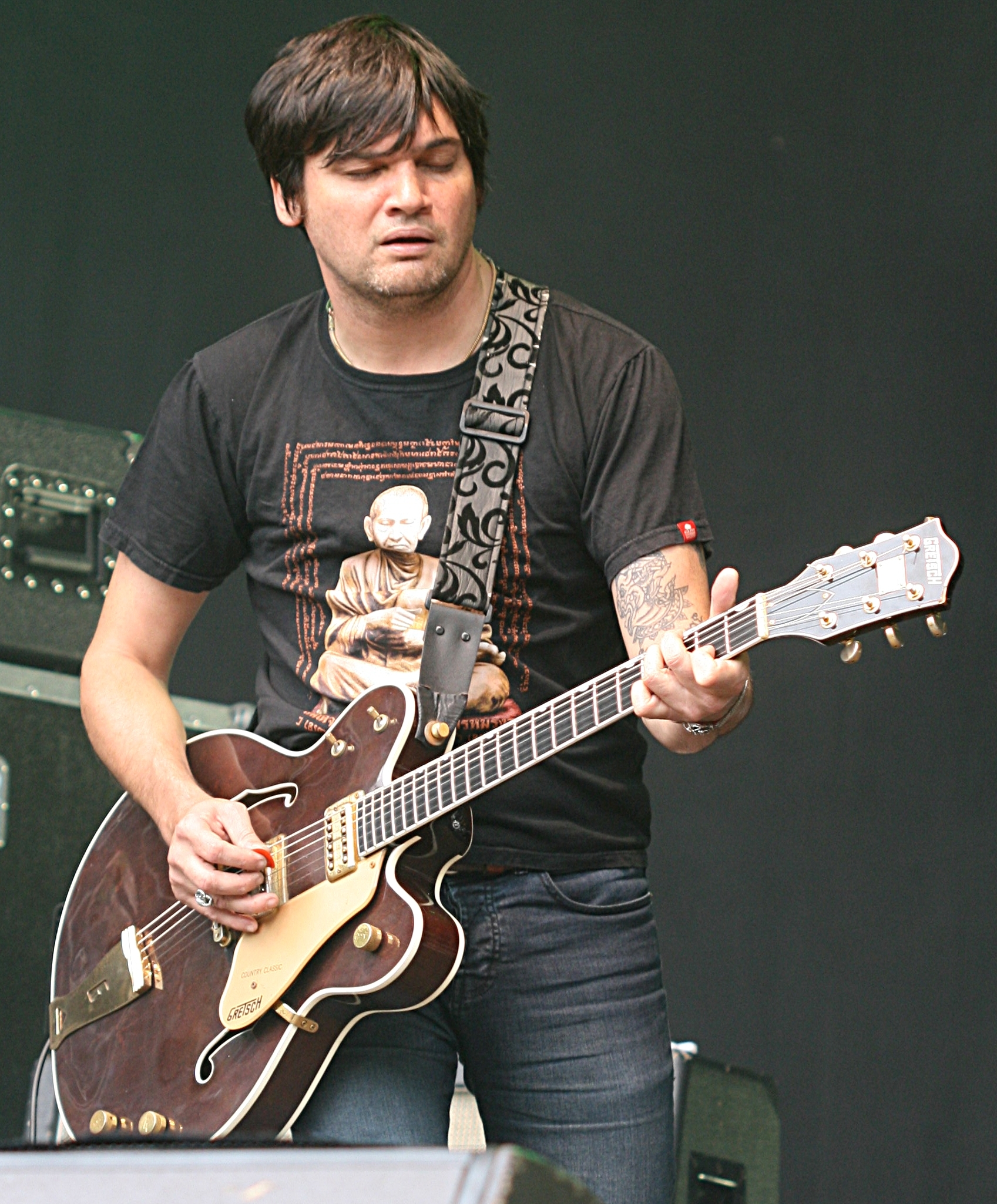 Conrad Keely, singer of …And You Will Know Us by the Trail of Dead, on the Main Stage of the Taubertal Festival 2013. Festivalsommer This photo was created with the support of donations to Wikimedia Deutschland in the context of the CPB project "Festival Summer".